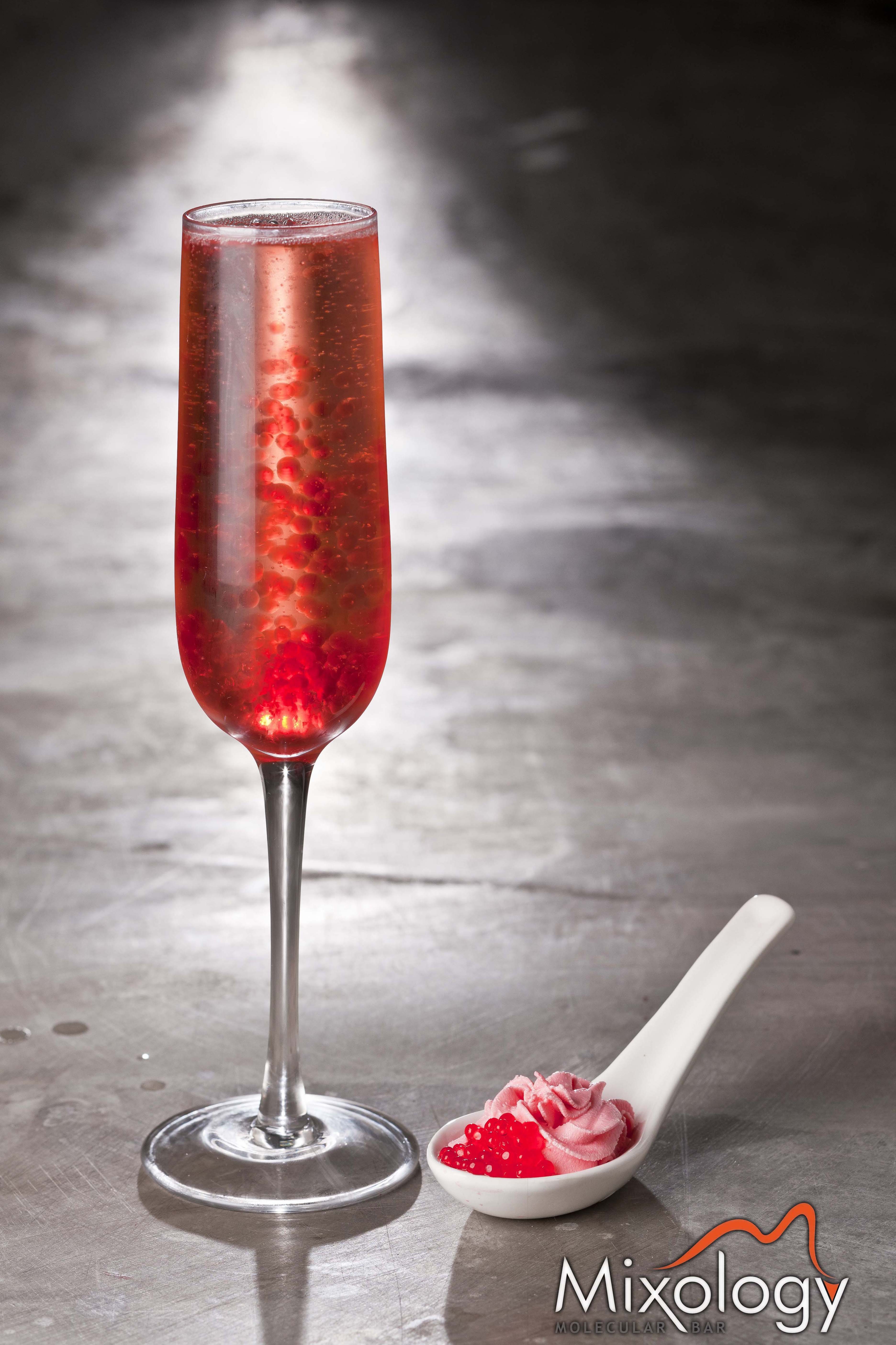 The most famous cocktail of Mixology Molecular Bar in Medellin, Colombia. Use spherification and foam